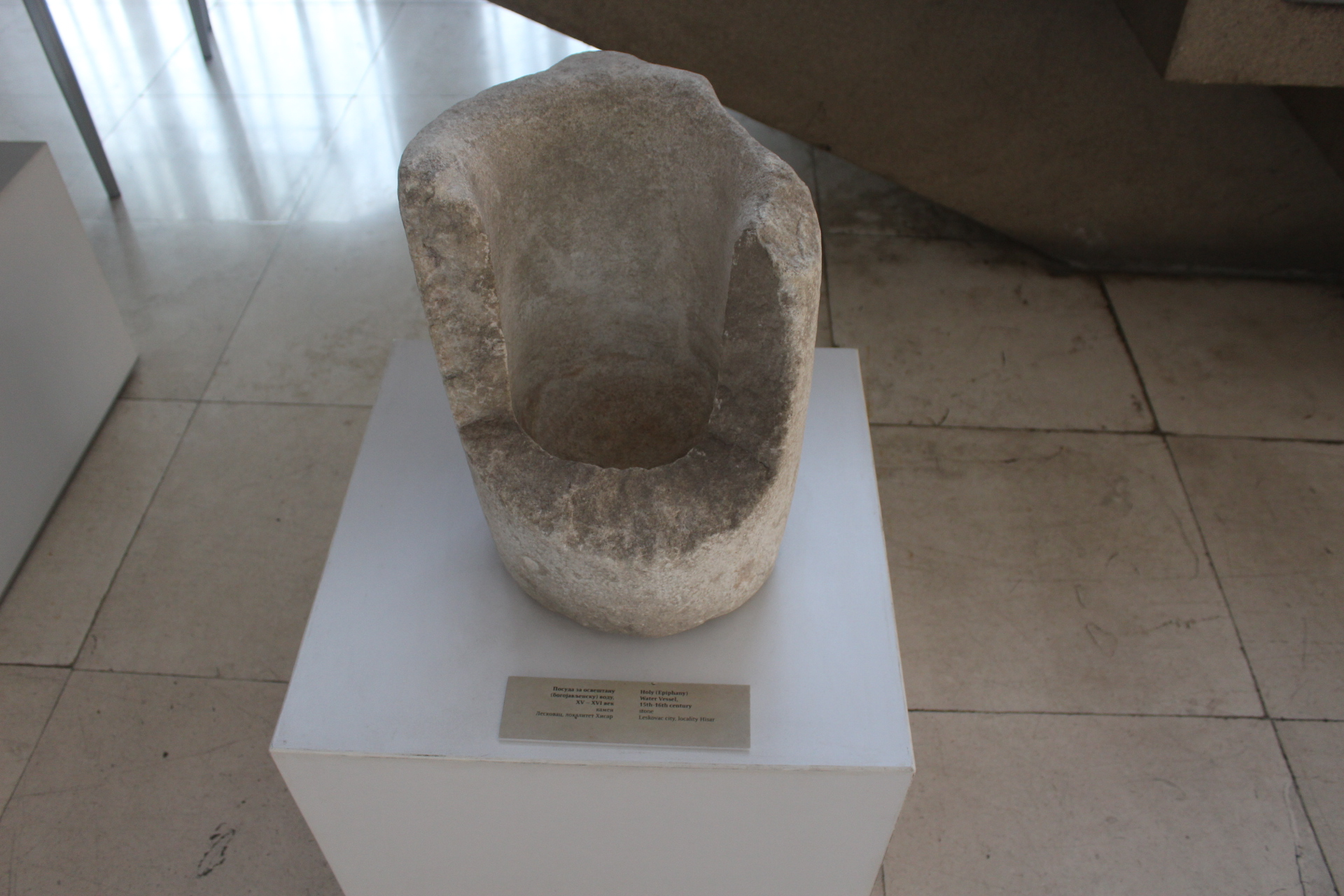 Holy (Epiphany) water vessel, 15th-16th century. Stone, Leskovac, locality Hisar. Srpski (latinica): Posuda za osveštanu (bogojavljensku) vodu, 15-16 vek. Kamen, Leskovac, lokalitet Hisar.